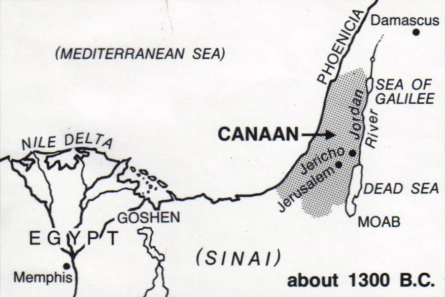 line art drawing of canaan.